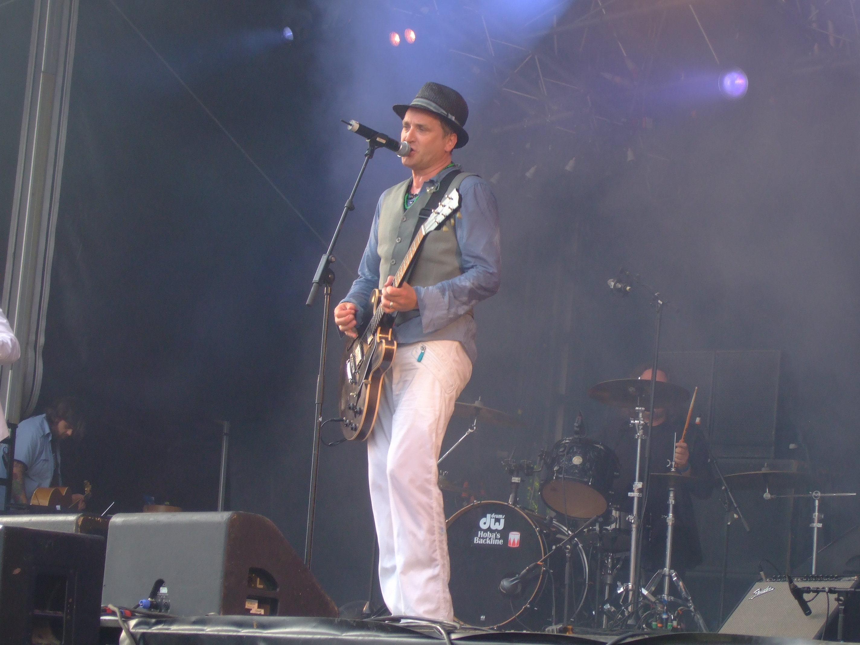 Morten Abel on Slottsfjellfestivalen 2009